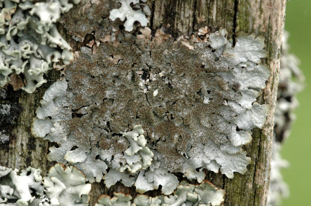 Parmelina tiliacea from Commanster, Belgium. If you think this is a different taxon, please contact James Lindsey.